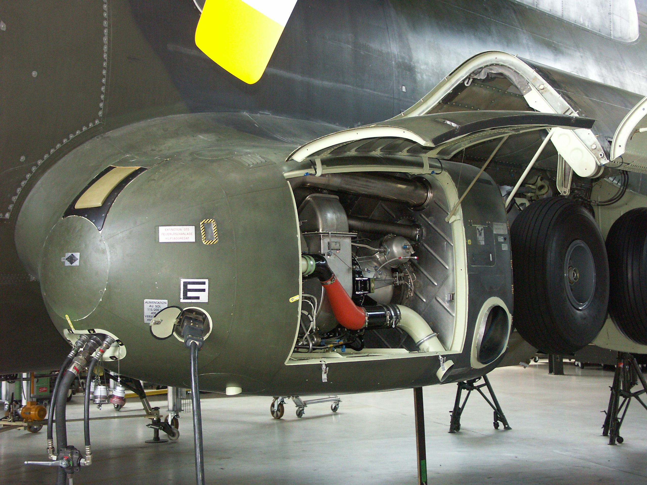 APU of Transall C-160 in Manching (Germany)